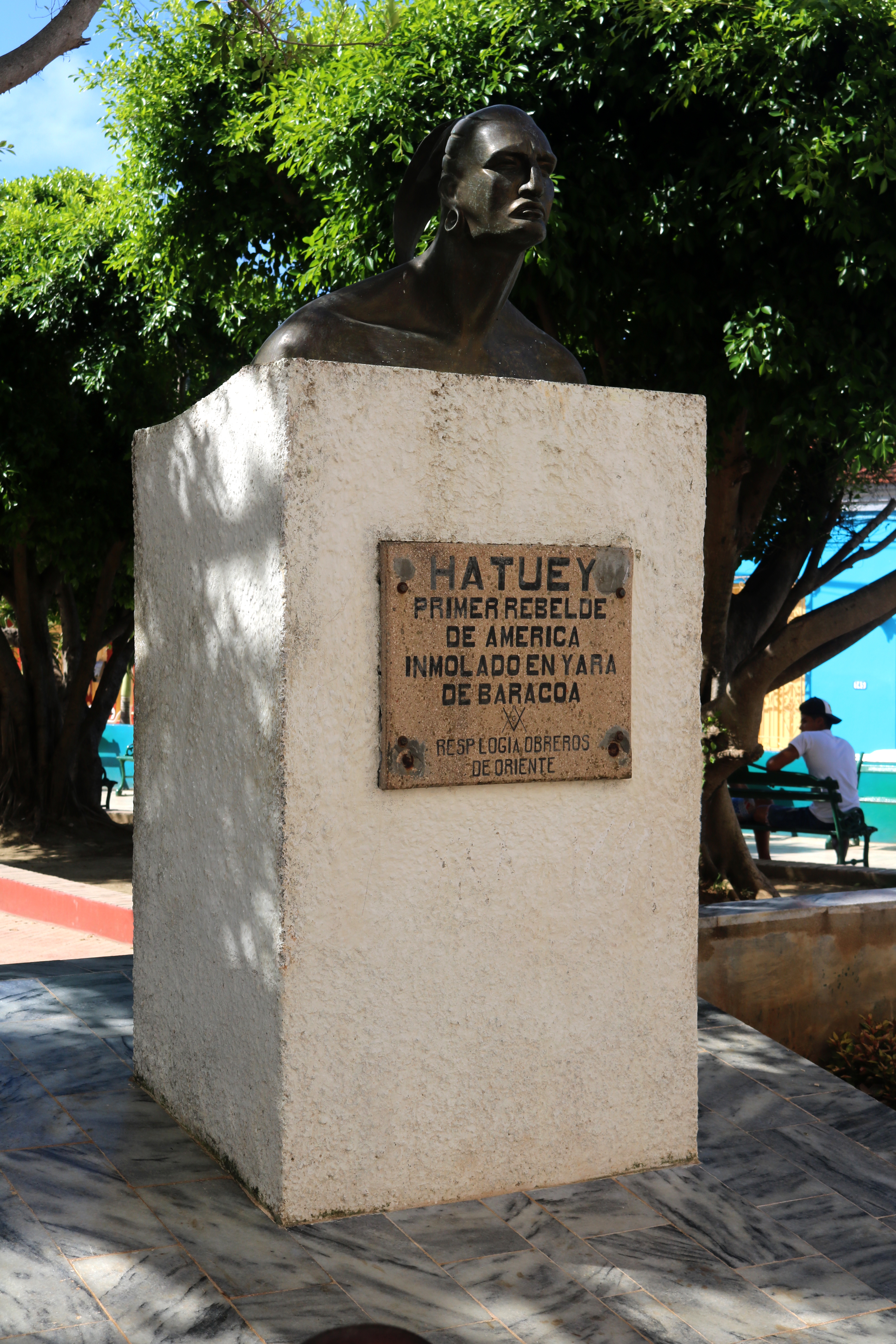 Hatuey bust, Parque Independenzia, in Baracoa (Cuba), along the street Jose Marti